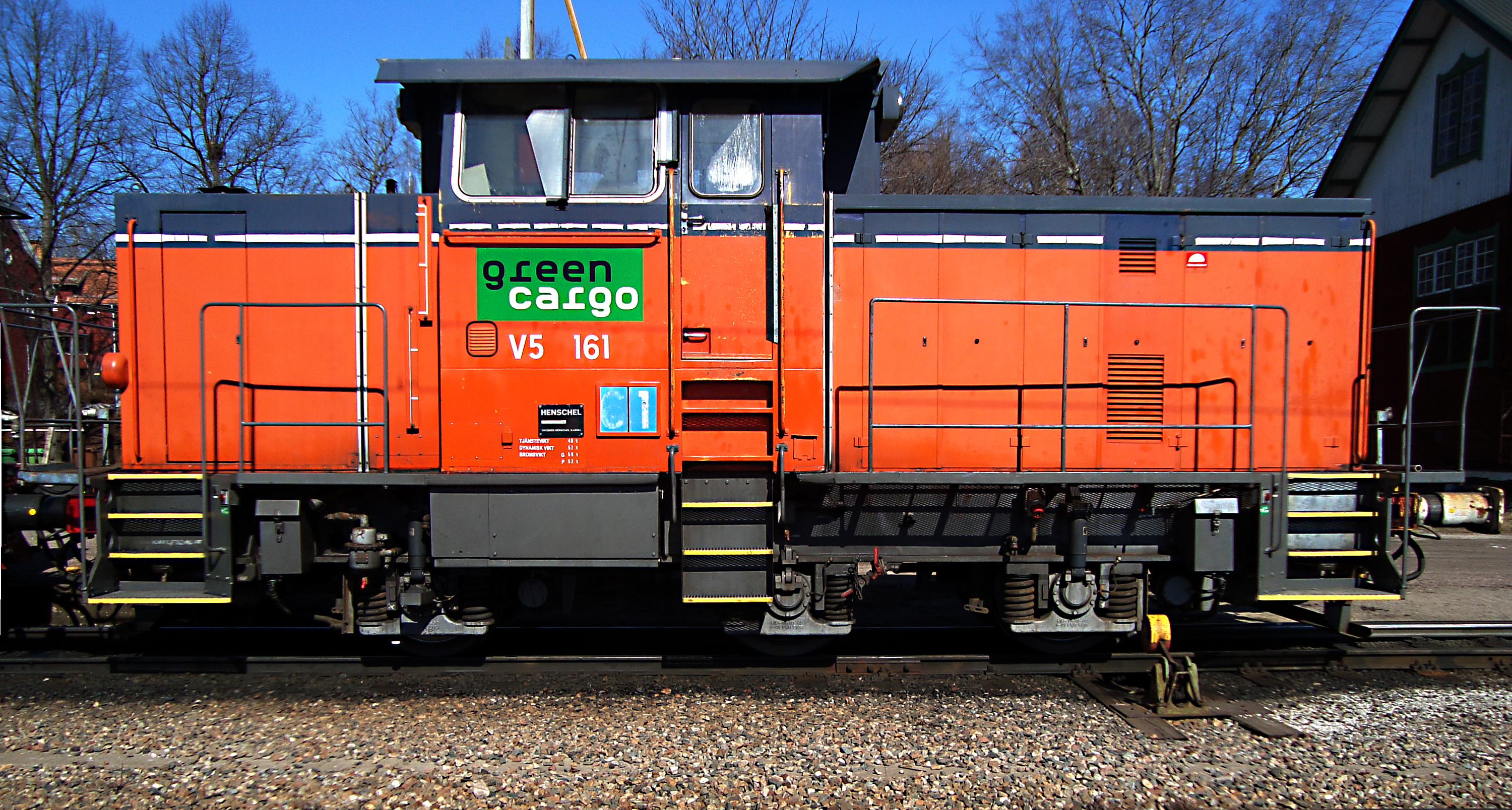 V5 diesel locomotive at Smedjebacken train station